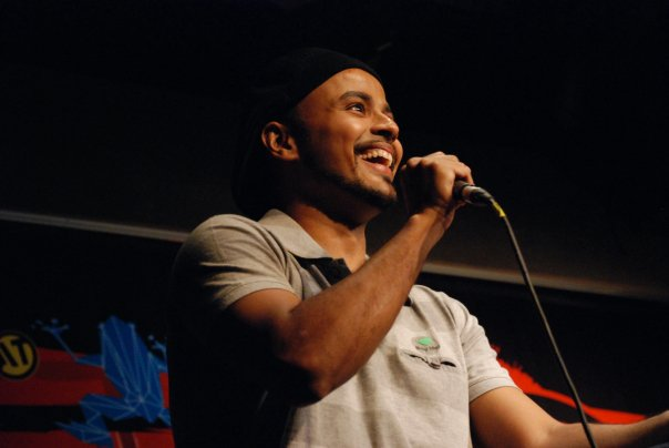 Photo of Sorabh Pant